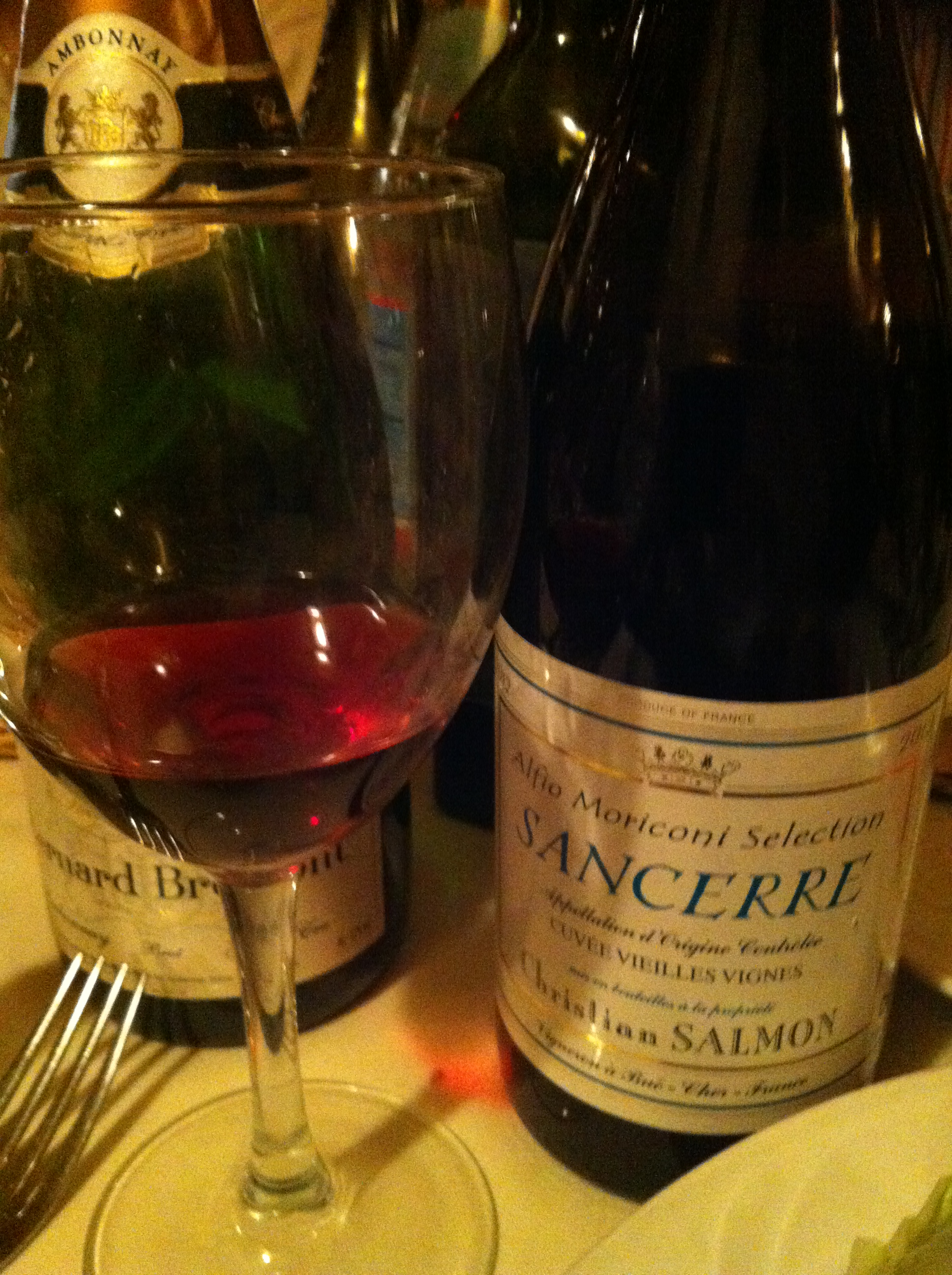 French red wine from the Sancerre region of the Loire Valley made from Pinot noir